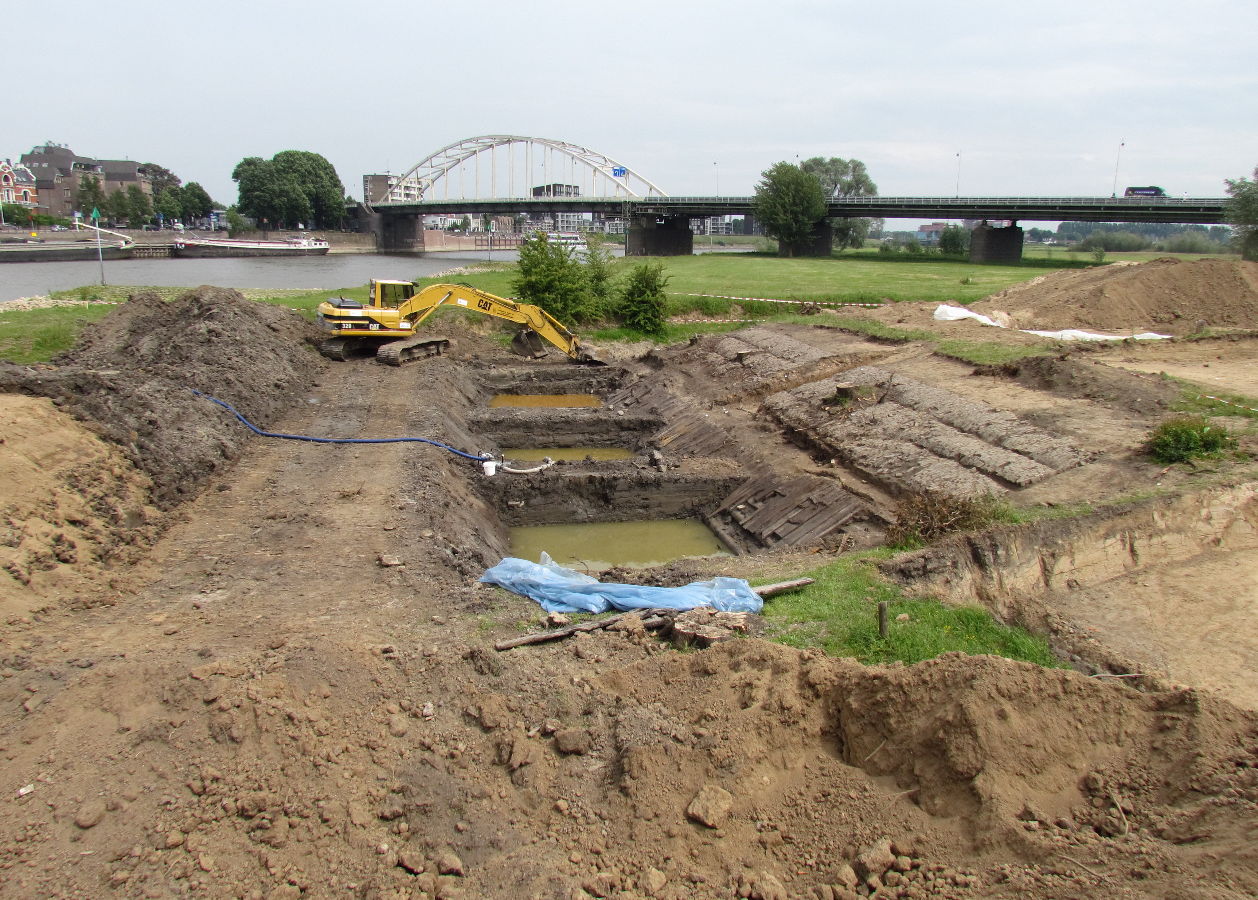 Excavated remains of a slipway of a 18th/19th century shipyard on the West bank of the IJssel river at Deventer, NL. The remains were discovered during preparations for a project named 'Space for the river'. This and neighbouring excavations are managed by archaeological research bureau 'BAAC'